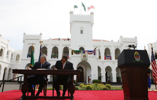 President George W. Bush and President Jakaya Kikwete of Tanzania, sign the Millennium Challenge Compact -- a $698 million dollar compact that is the largest project in the Millennium Challenge Corporation’s history – prior to the start of their joint press availability Sunday, Feb. 17, 2008, at the State House in Dar es Salaam. White House photo by Eric Draper